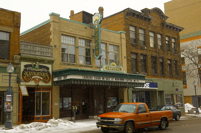 A view of the Capitol Theatre.